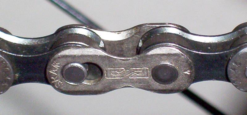 SRAM Power Link. Other links, sometimes called master links exist. One such is the Clarks master link.